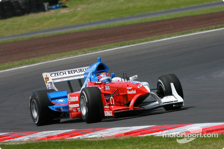 Tomas Enge - A1GP (Taupo)